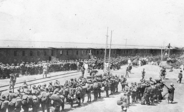 North Africa: Egypt, Suez Canal. The 17th Battalion, AIF, entraining at Maritina Italiana.